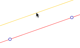 A parallel line being constructed in CaRMetal.